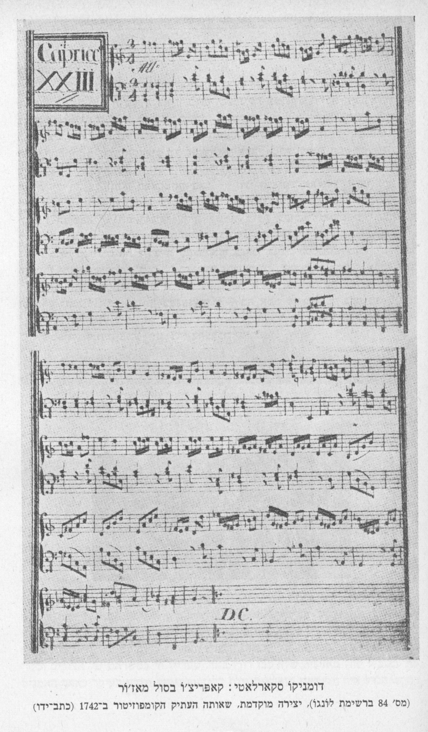 Domenico Scarlatti, Cappricio in G Major, in Scarlatti's hand writing, 1742